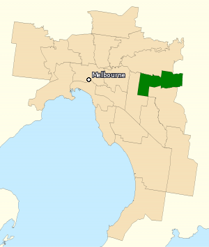 This image incorporates data that is: © Commonwealth of Australia (Australian Electoral Commission) 2009 Division of Deakin 2010